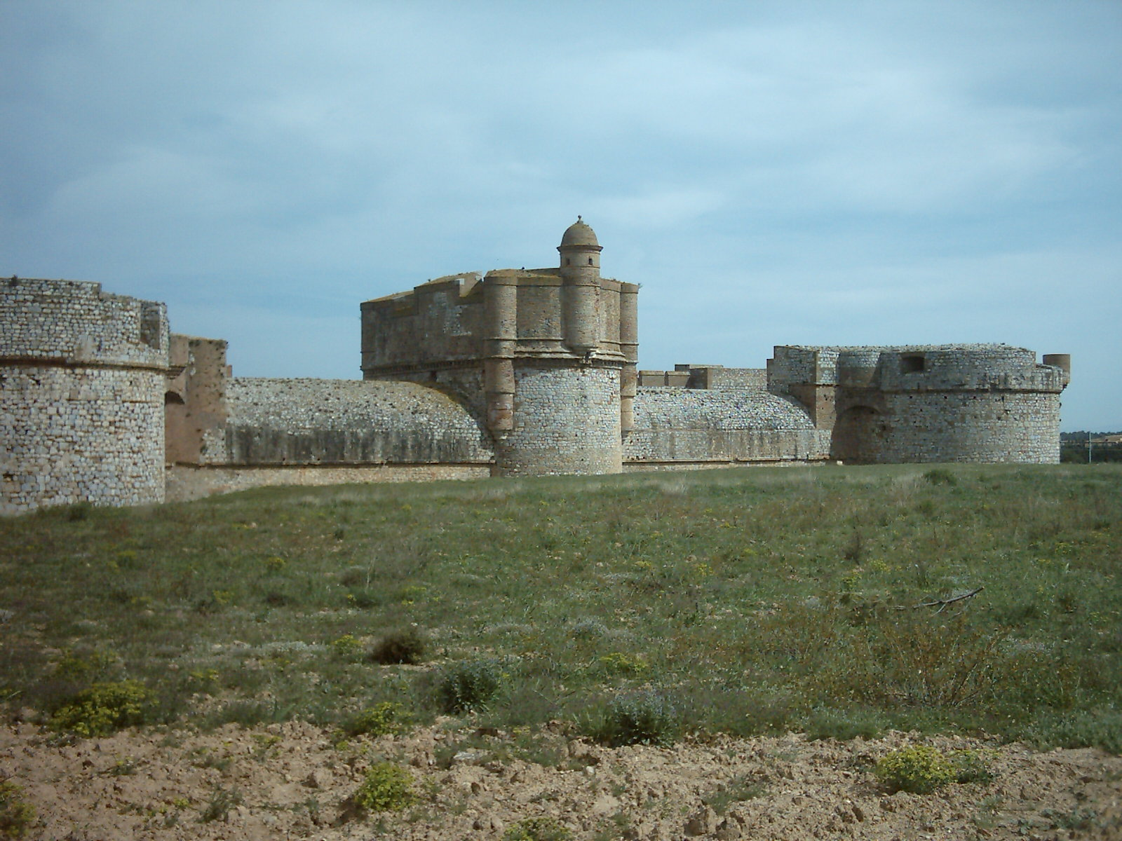 the Salses Fortress (Southern France).